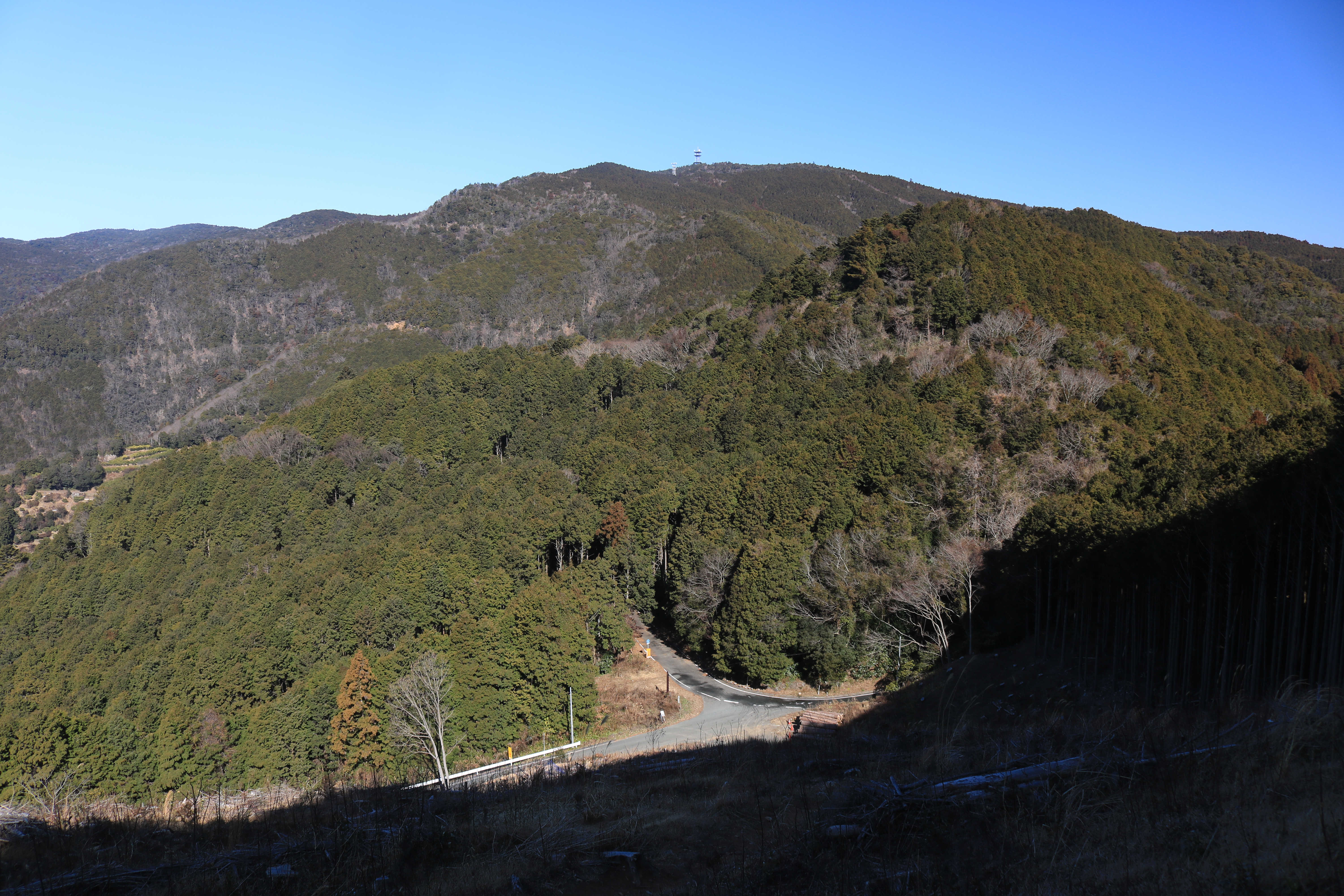 Mount Tonmaku and Kazakoshi Pass on Shizuoka Prefectural Road Route 68 in Yumihari Mountains, Kita-ku, Hamamatsu, Shizuoka Prefecture, Japan.